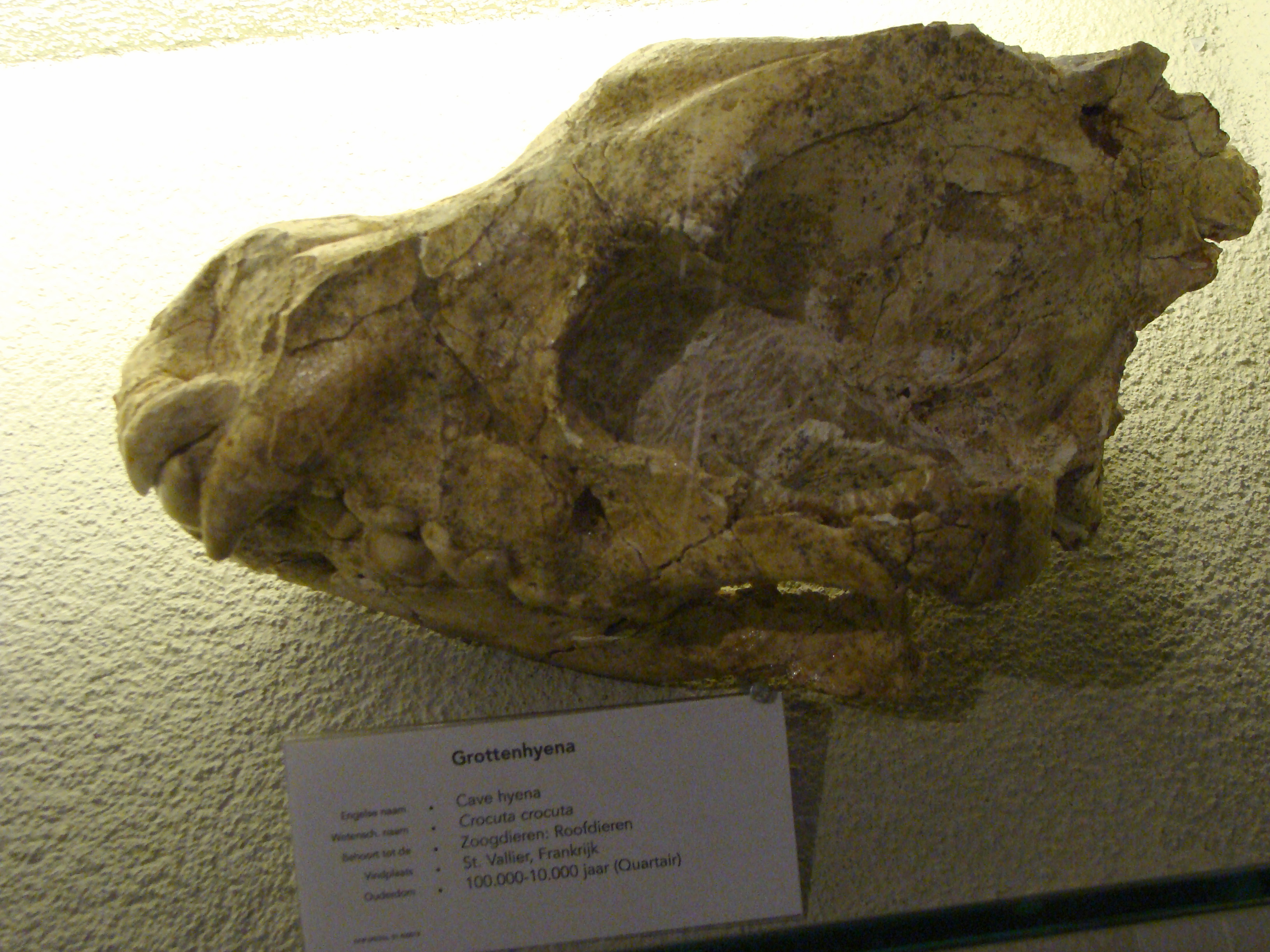 The Cave Hyena (Crocuta crocuta spelaea) is an extinct subspecies of spotted hyena (Crocuta crocuta) native to Eurasia, ranging from Northern China to Spain and into the British Isles. This fossil is kept is on display in the National Museum of Natural History "Naturalis" in Leiden, the Netherlands. It was found in St. Vallier, France and dates 100.000 - 10.000 years.